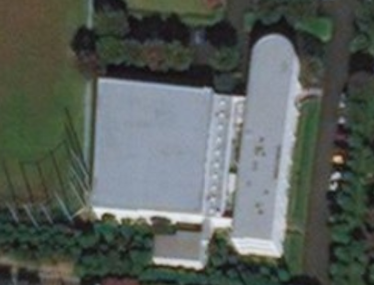 Satellite view